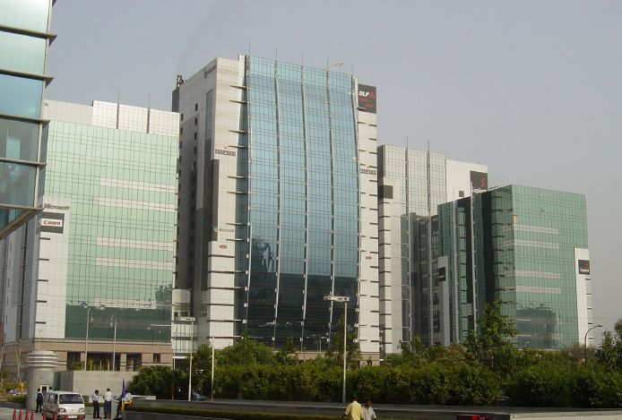 Cyber Green Building, Cybercity, DLF City Phase II, Gurgaon, Haryana, India.